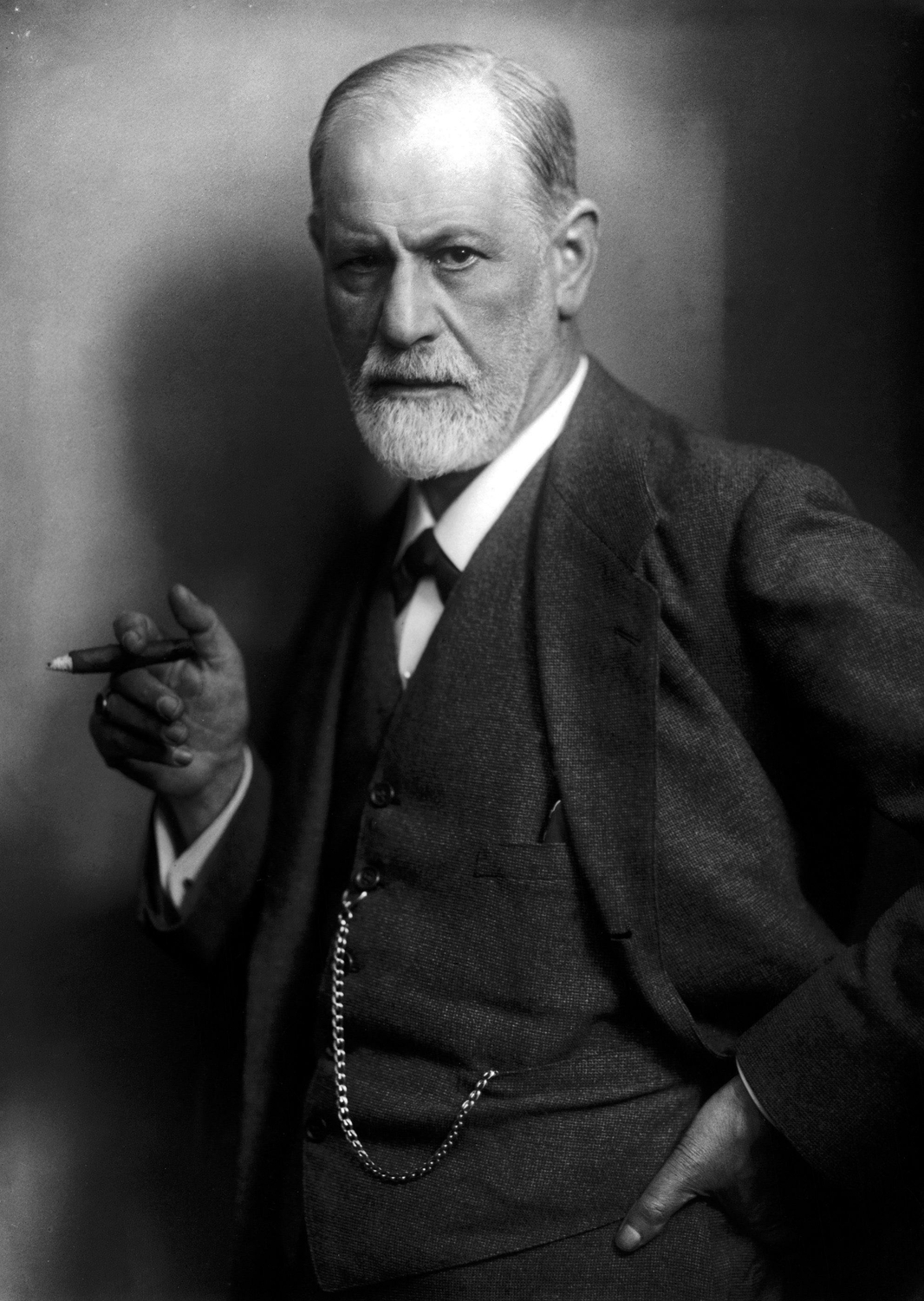 Sigmund Freud, founder of psychoanalysis, holding a cigar. Photographed by his son-in-law, Max Halberstadt, c. 1921